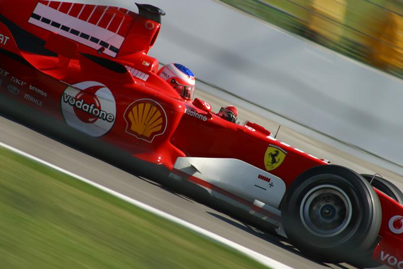 Rubens Barrichello driving for Ferrari at the 2005 United States Grand Prix.